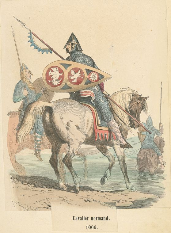 Normand cavalier of King William in 1066. Drawing from Vinkhuijzen Collection of Military Costume Illustration.